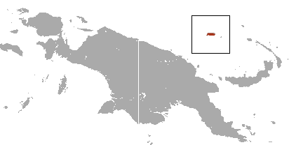 Admiralty Island Cuscus (Spilocuscus kraemeri) range, with the Indonesia-New Guinea border